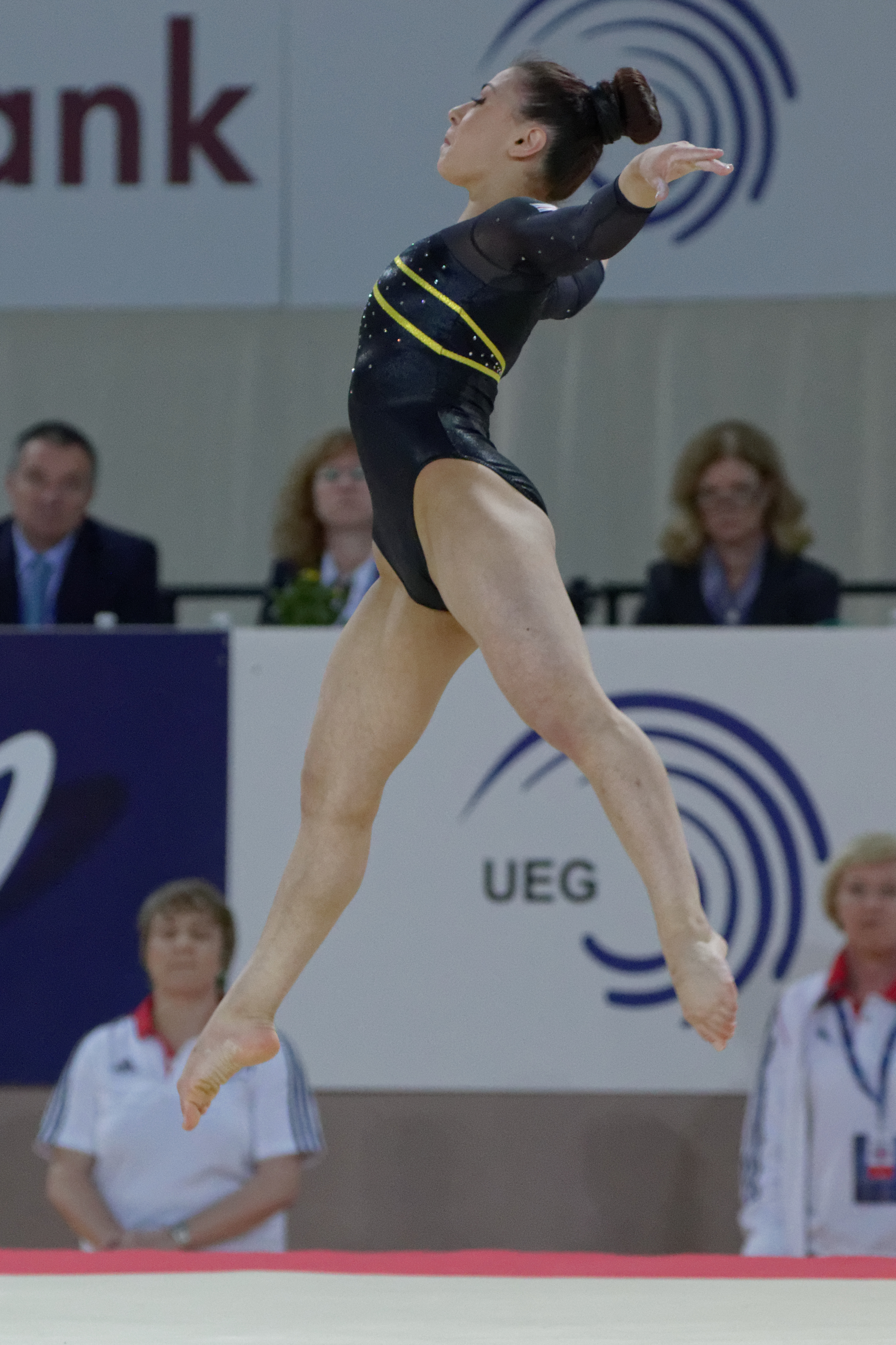 2015 European Artistic Gymnastics Championships.